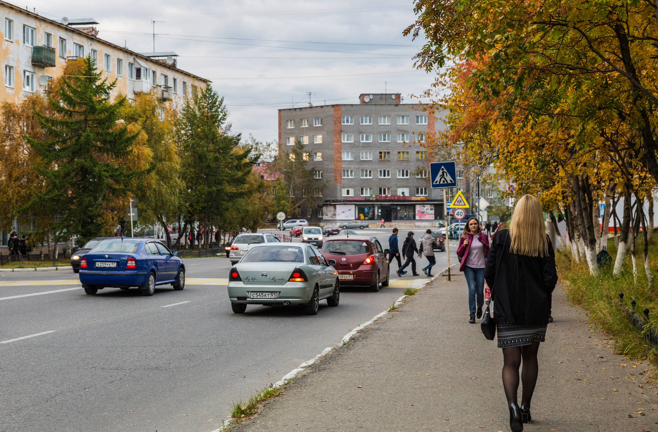 Kandalaksha City Center